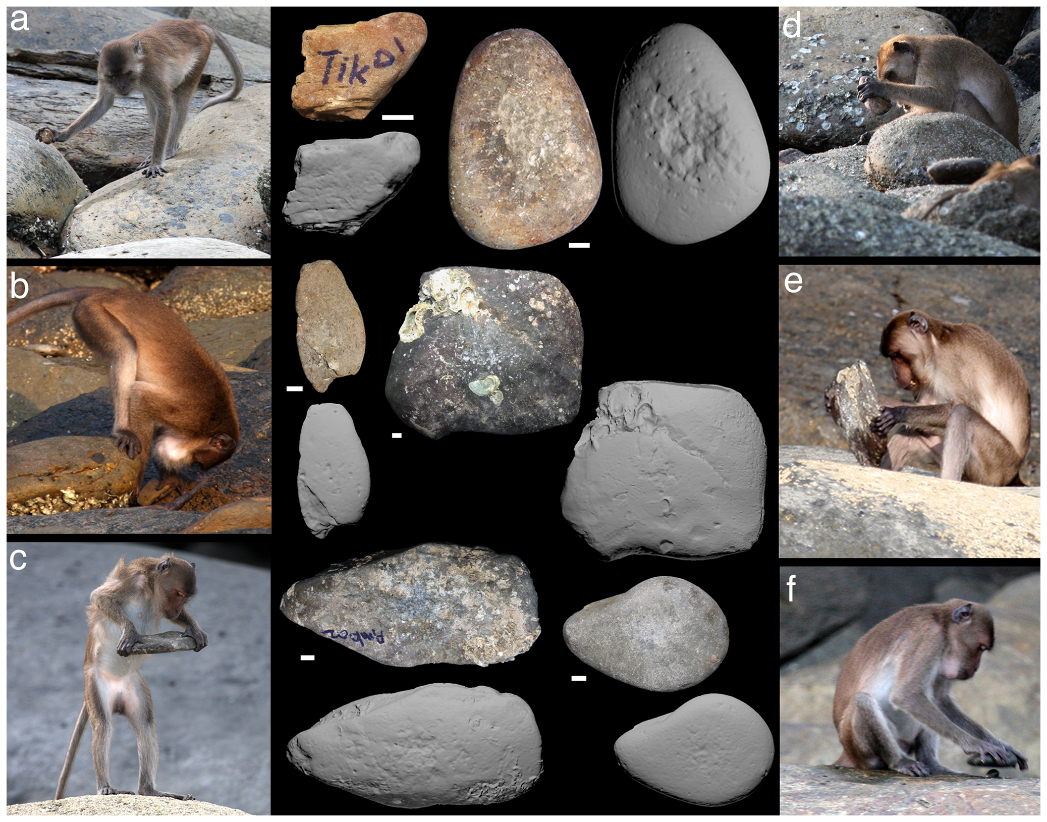 Macaca fascicularis aurea stone tools. Each tool is accompanied by a photo of the tool in use by a macaque prior to its collection. Each tool is represented by a photograph (with 1 cm scale) and a 3D scan of the same face, displaying use-wear. Tool codes are: (a) Tik01; (b) Che01; (c) Amb02; (d) Orc01; (e) Sln01; (f) Amb03. Macaque photos by Michael D. Gumert, tool photos by Michael D. Gumert and Michael Haslam.